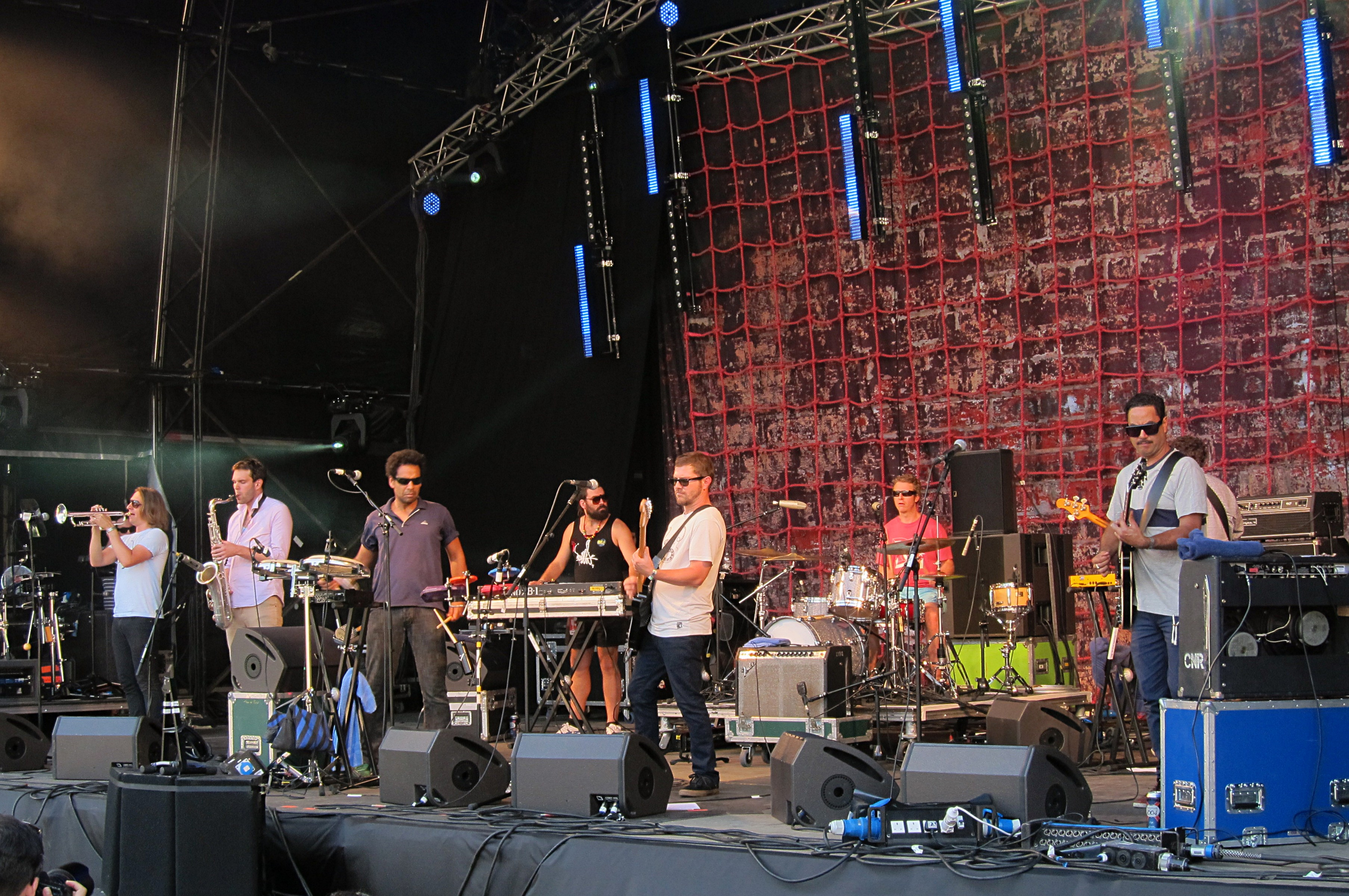 The Black Seeds, main stage, Summer Sundae festival, Leicester, 19 August 2012